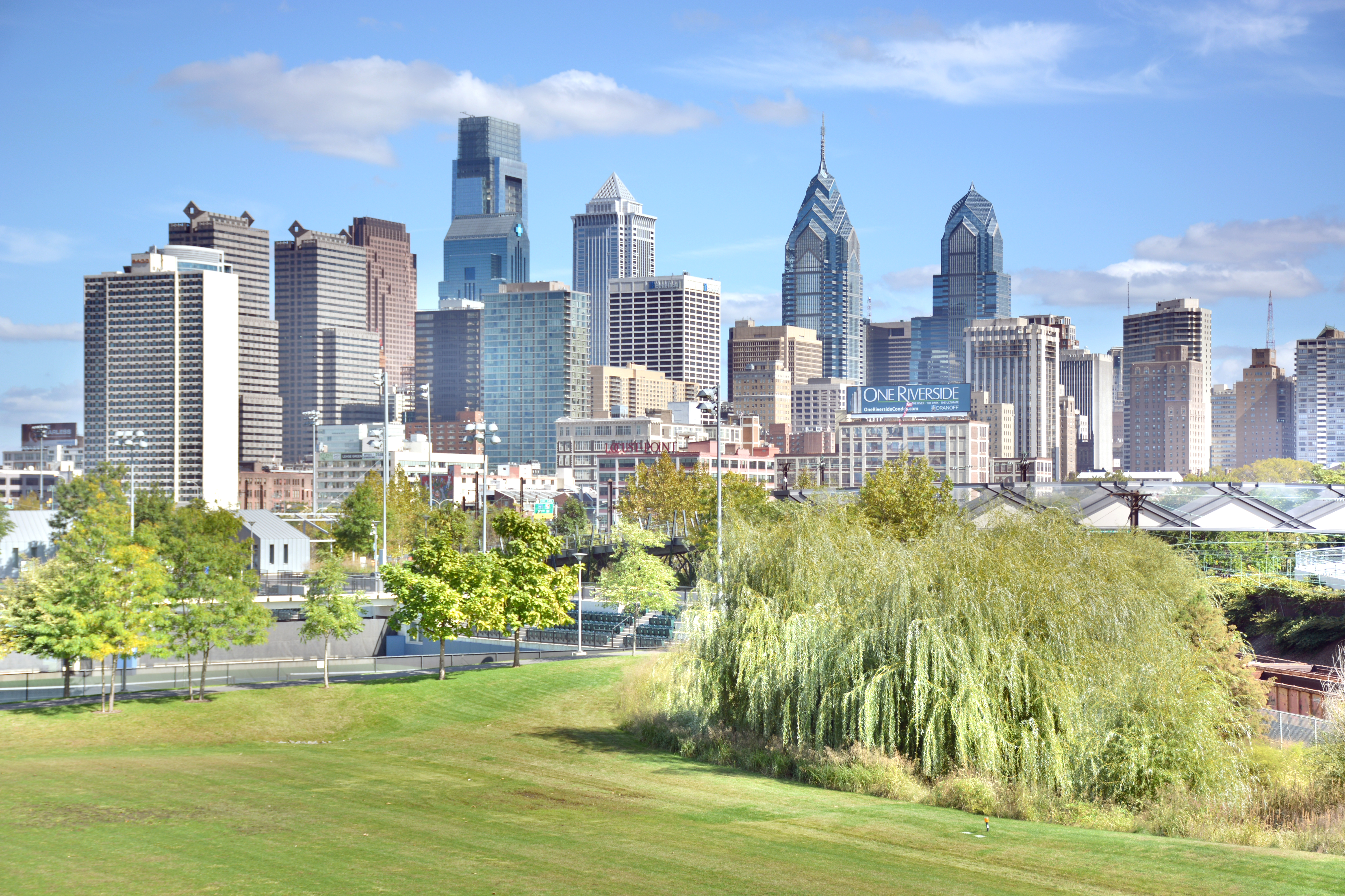 Photo of the Philadelphia skyline taken from the South Street Bridge, showing Penn Park in the foreground. Created October 5, 2015.